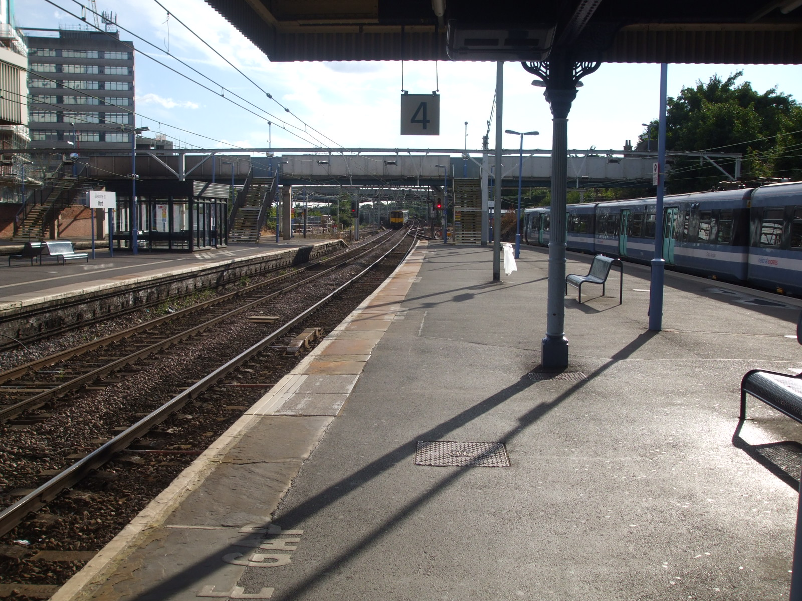 Ilford station slow eastbound platform 4 and bay platform 5 (right) looking west